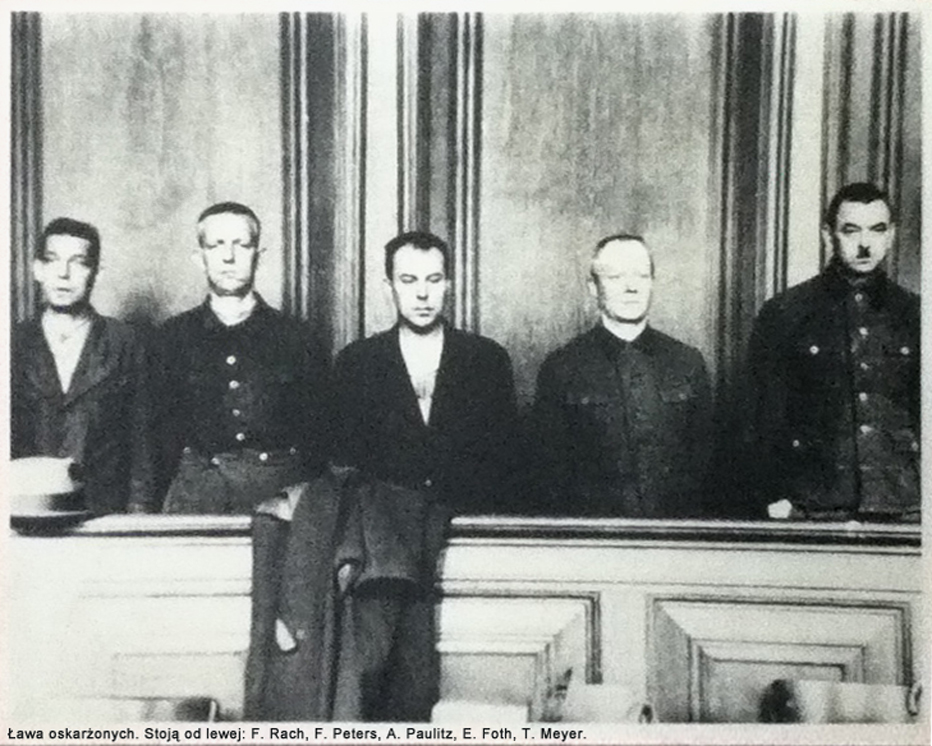 Stutthof trials in Gdańsk, Poland after World War II. Left to right: SS Oberscharführer Hans (F.?) Rach, SS Oberscharführer Albert Paulitz, SS Oberscharführer Ewald Foth, and SS Hauptsturmführer Theodor Meyer on trial for crimes against humanity committed at Stutthof concentration camp.